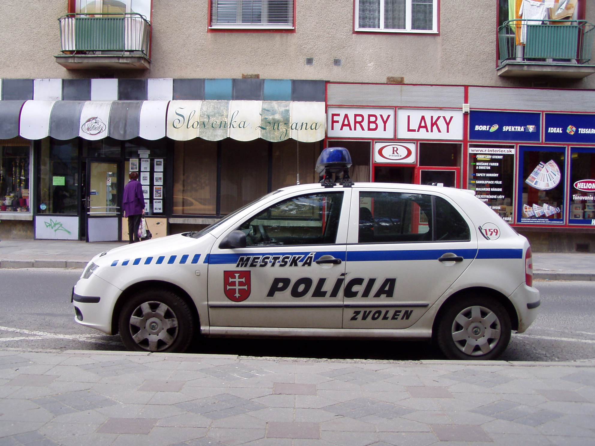 municipal(town)police car